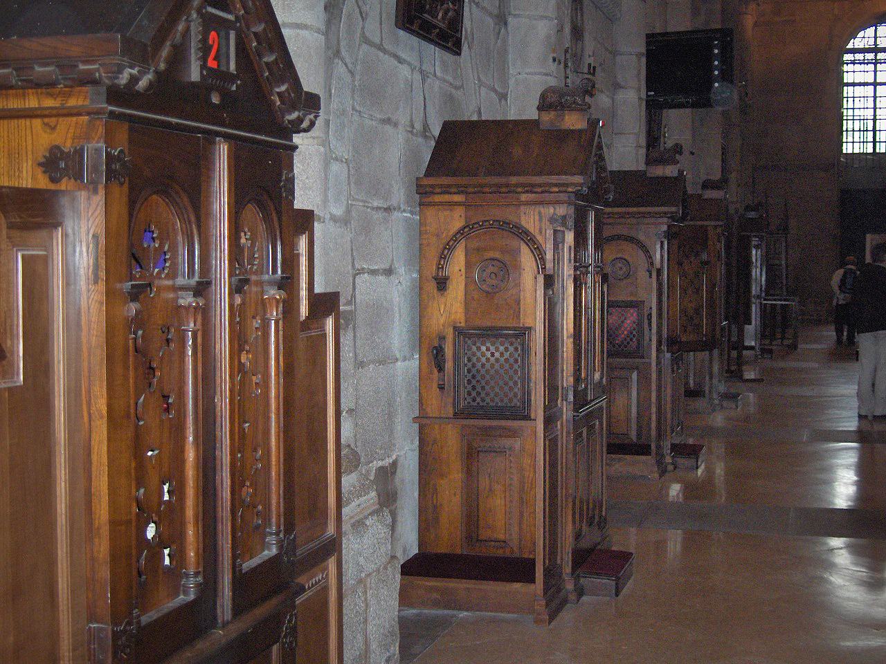 Confessionals in the cathedral of Santiago de Compostela, Spain